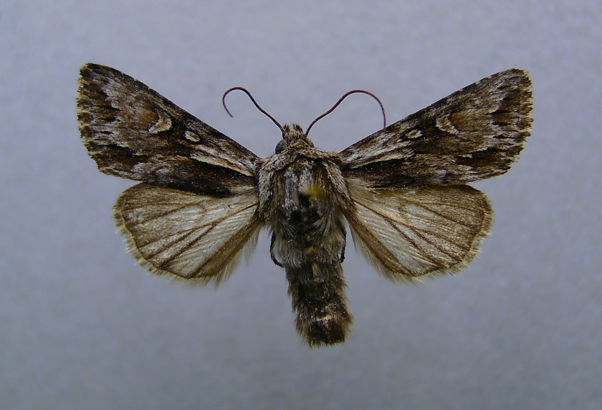 Chloantha hyperici, Kamp-Bornhofen, Middle Rhine, Germany